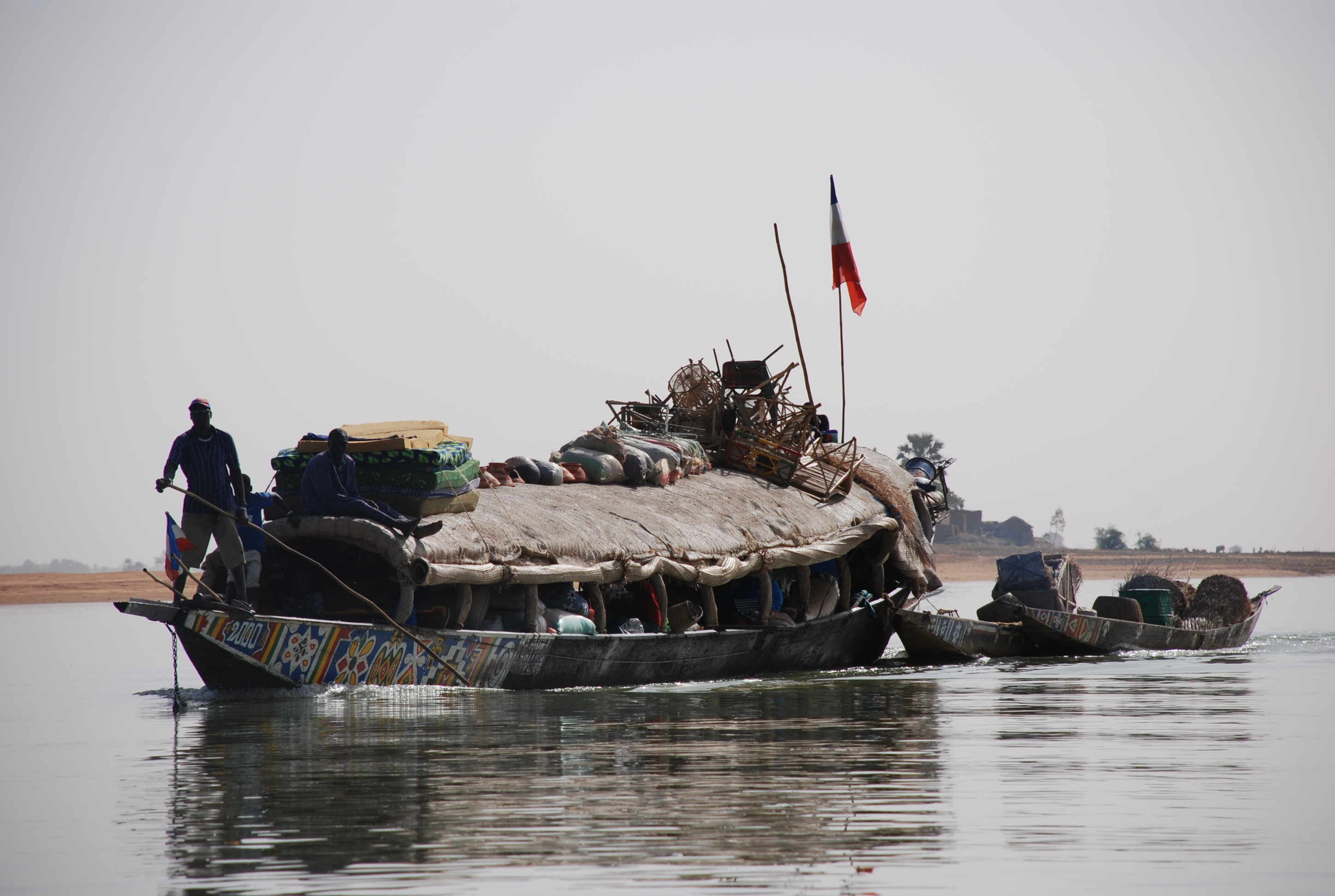 Watertaxi/bus near Mopti, Mali, on the river Niger heading to Timbouctou